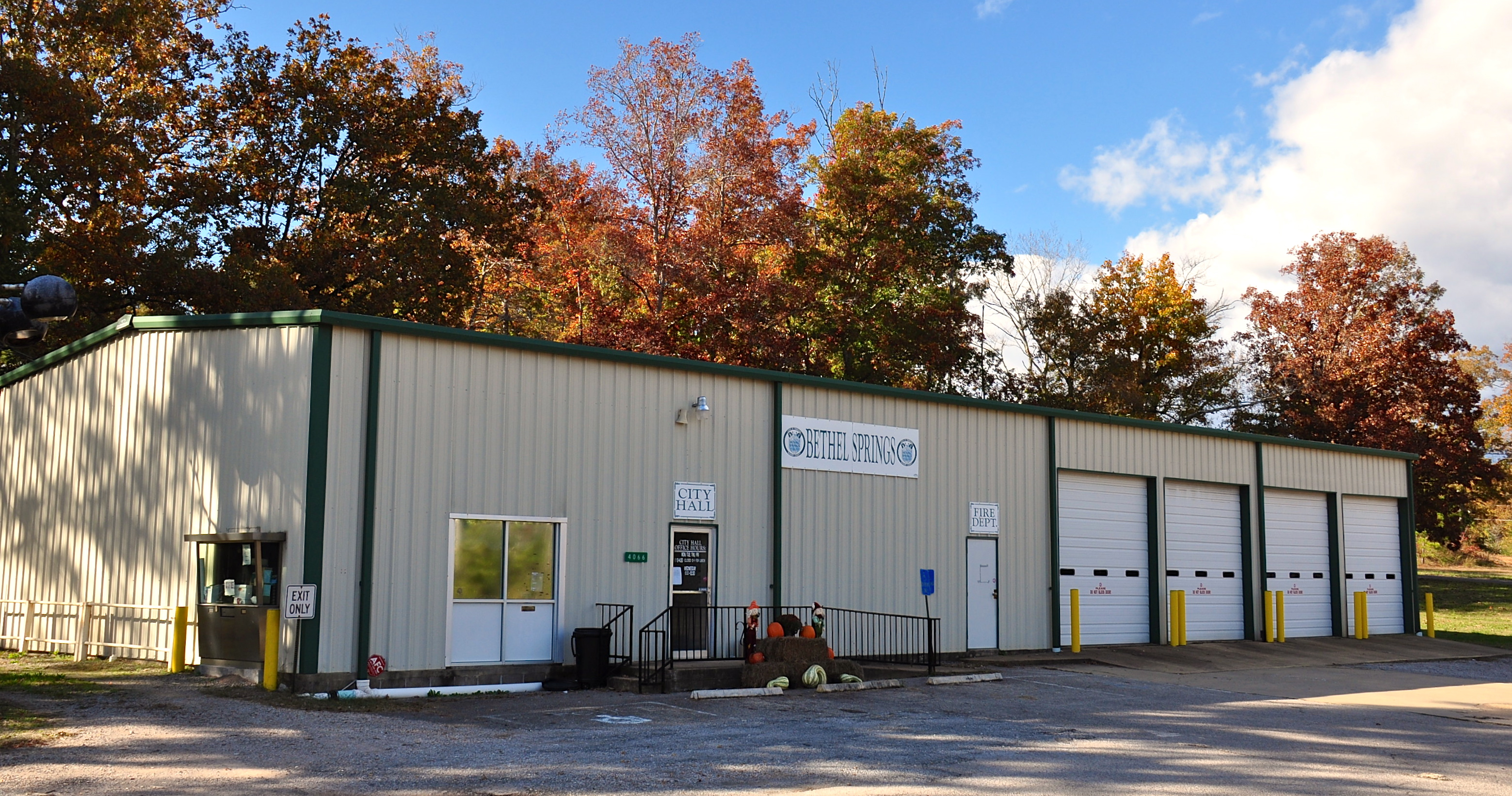 The City Hall and Fire Department building in the town of Bethel Springs.